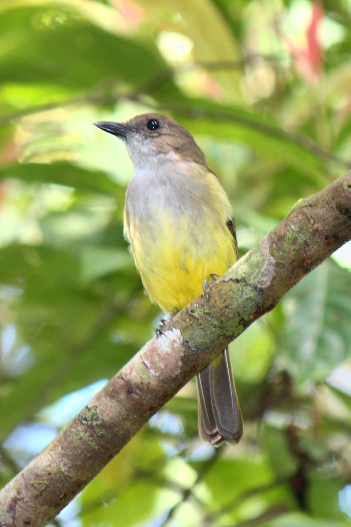 Sulphur-bellied Whistler (Pachycephala sulfuriventer) at Tomohon, North Sulawesi